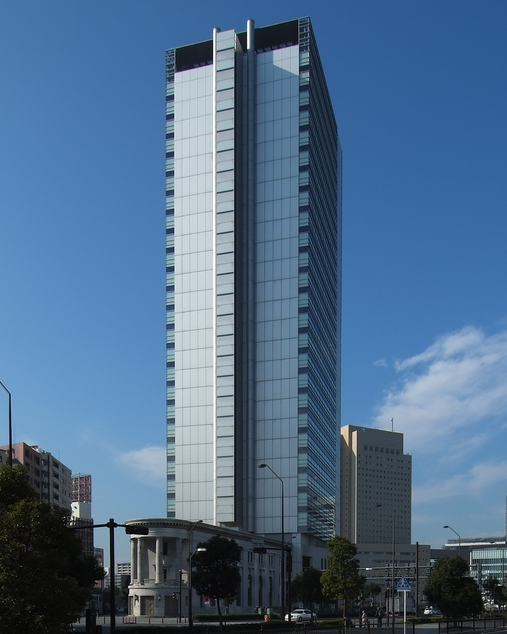 Yokohama Island Tower, at Yokohama Kanagawa Japan, design by Fumihiko Maki in 2003.